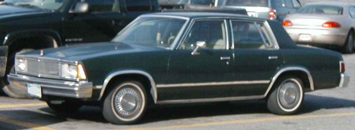 1978-1983 Chevrolet Malibu photographed in USA.